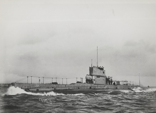 AWM caption : "Australian Navy submarine AE2 at sea. AE2, and its sister ship AE1, were the first submarines allocated to the Royal Australian Navy arriving in Sydney Harbour on 24 May 1914 under RN command. On the outbreak of WW1 both submarines were dispatched to New Britain under escort. AE2 was later based at Suva returning to Sydney in November 1914. On 31 December 1914 AE2 departed from West Australia with the second ANZAC convoy. The submarine was towed across the Indian Ocean and eventually arrived in the Gallipoli area joining the Britisn Naval Squadron. In April 1915 AE2 was ordered to attempt the passage through the Dardanelles to the Sea Of Marmora and disrupt enemy shipping. The passage was successful. On 30 April 1915 AE2 moving to meet a RN submarine which had arrived after the RAN vessel was forced to dive but technical problems made the vessel impossible to handle and the captain was forced to surface and surrender after opening all tanks to sink AE2."